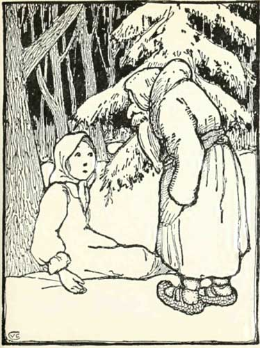 Illustration for the tale "King Frost" from the book "More Russian picture tales" by V. Carrick